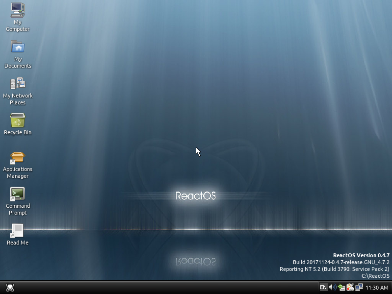 ReactOS 0.4.7 with Lautus Theme